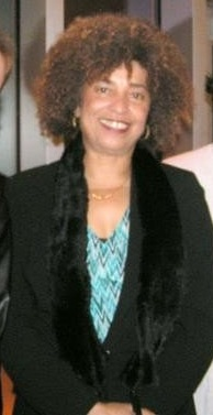 Angela Davis after a speaking engagement at East Stroudsburg University of Pennsylvania in October 2006